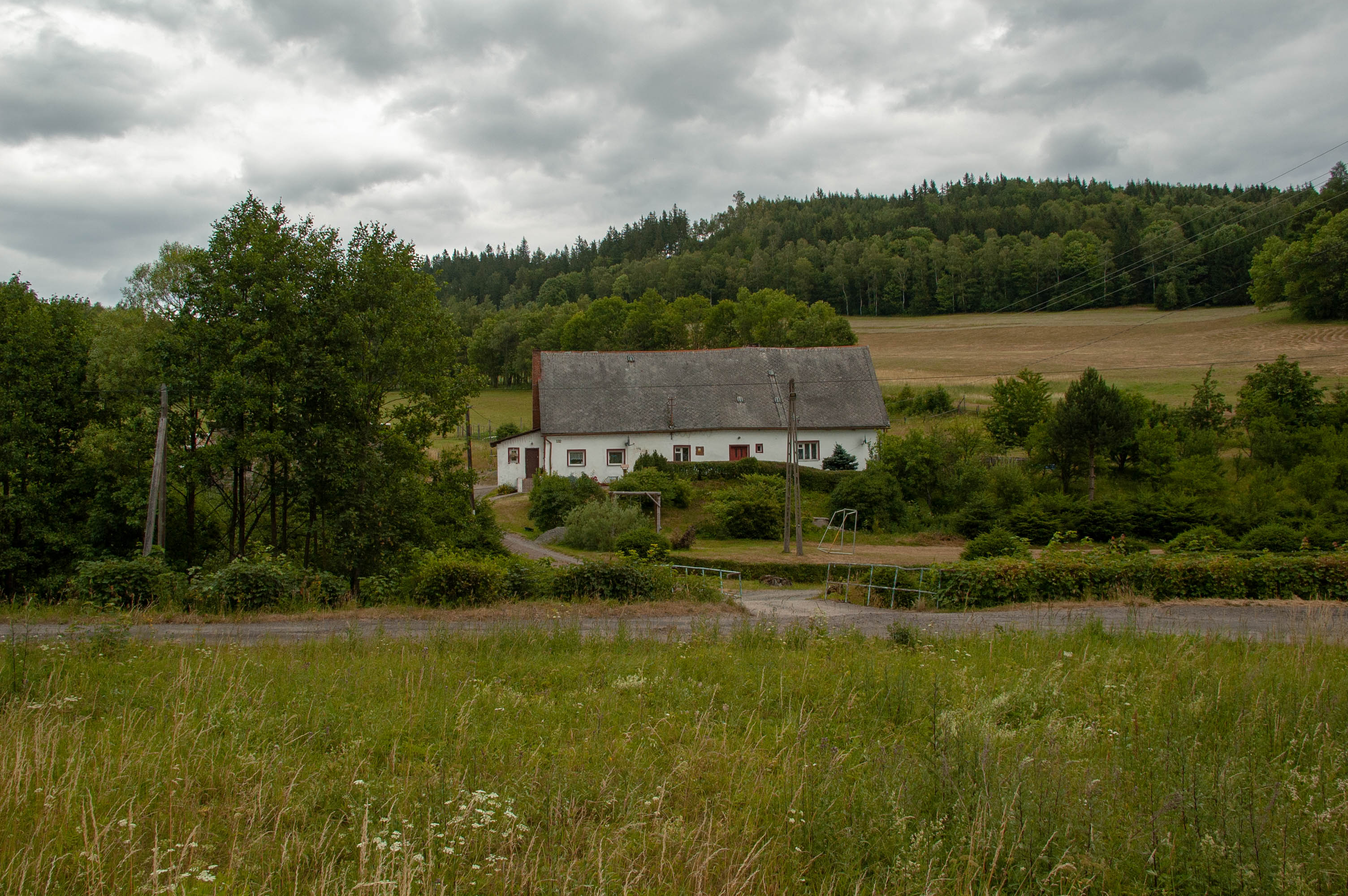 This photograph was created as a part of Wikiexpedition Lower Silesia, a project supported by Wikimedia Poland grant.